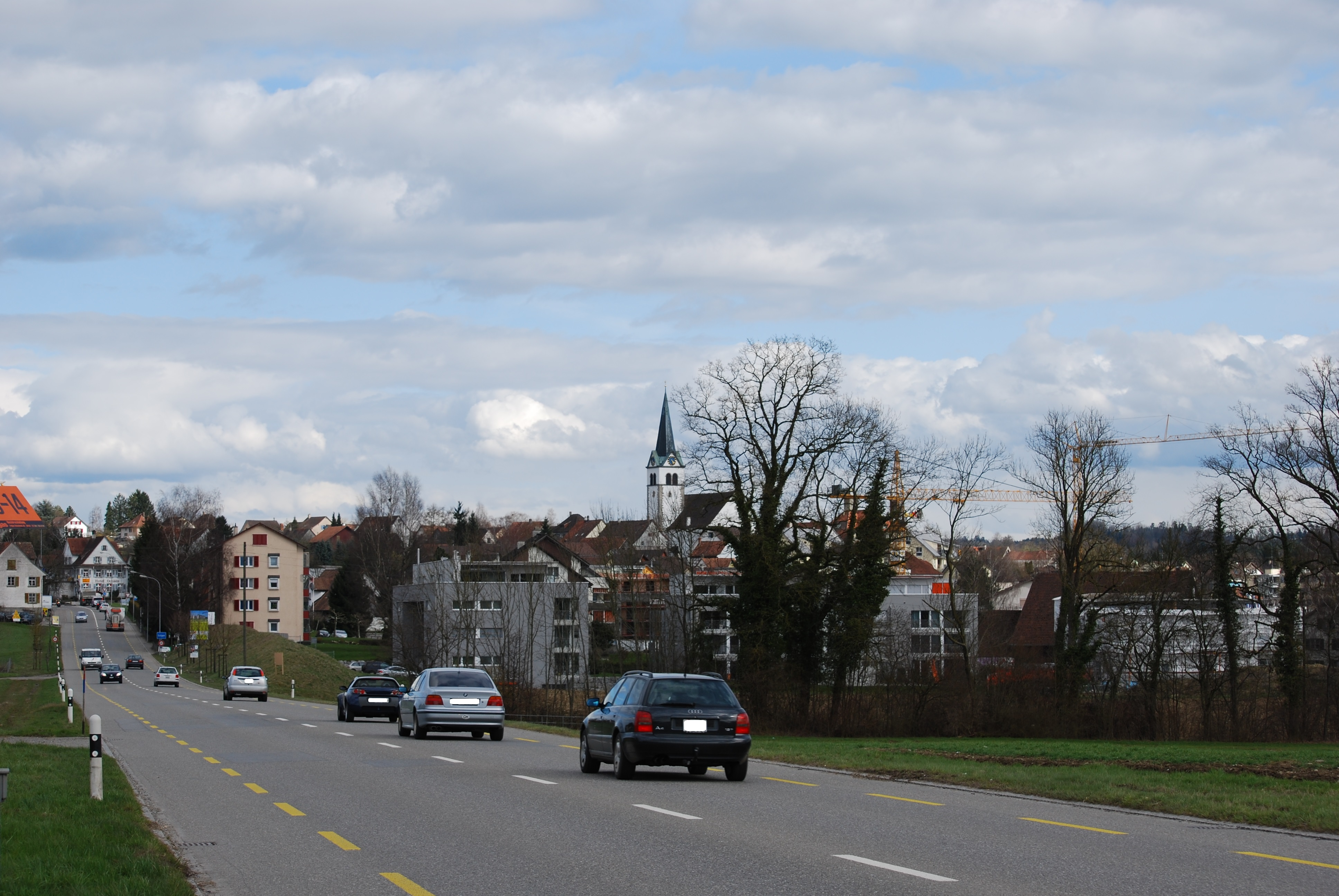 Sulgen, canton of Thurgovia, Switzerland